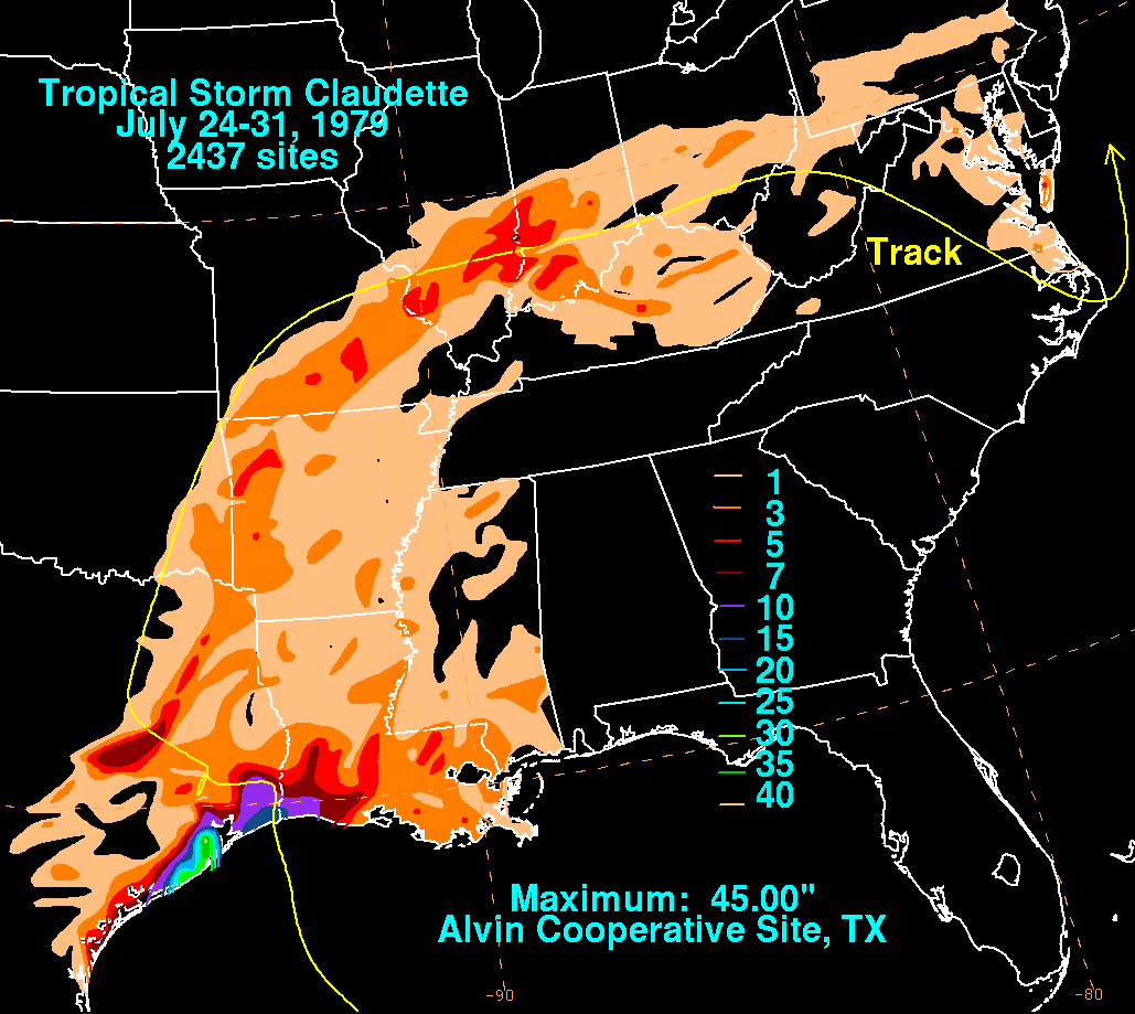 Storm total rainfall map of Tropical Storm Claudette during July 1979.